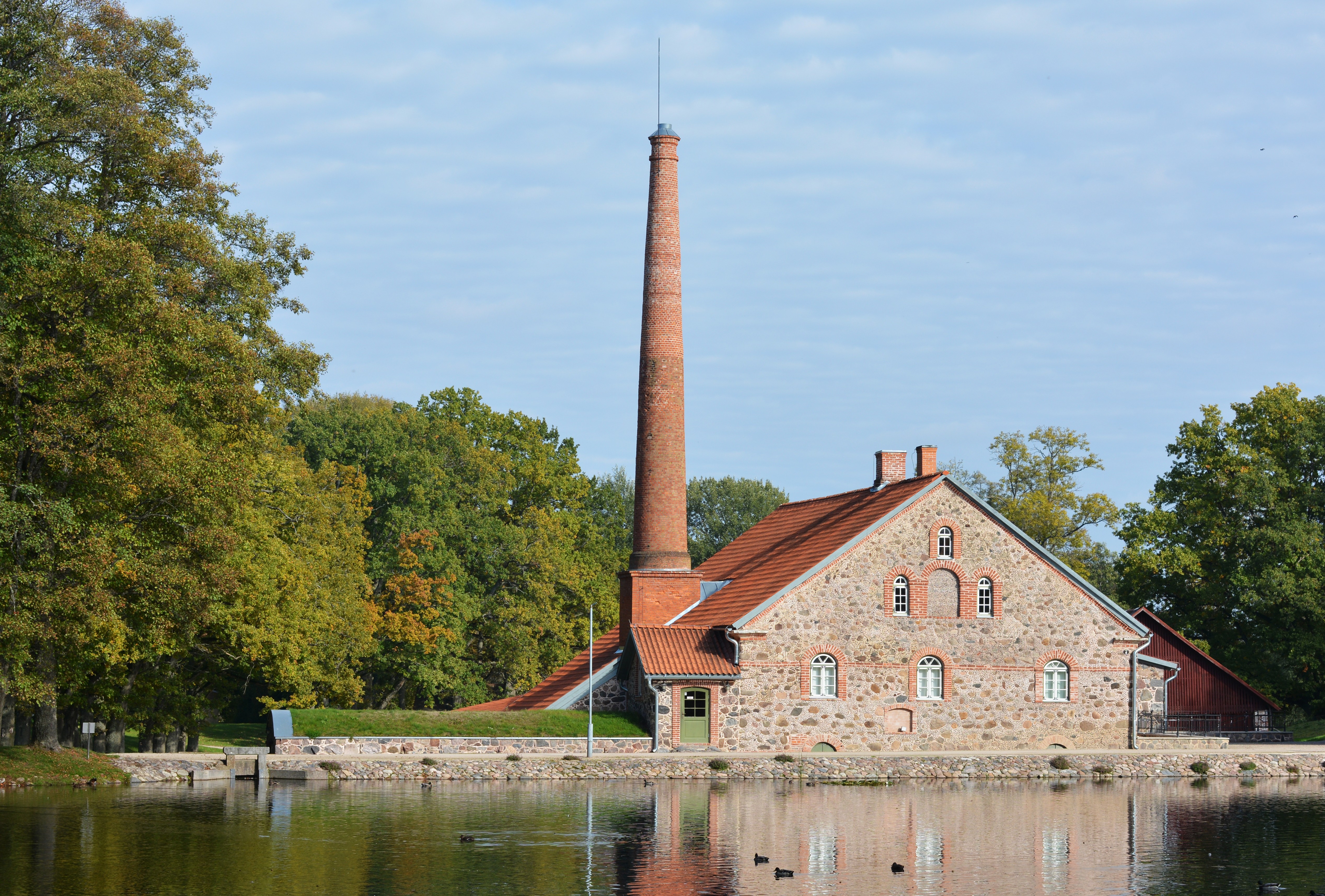 Olustvere manor destillery